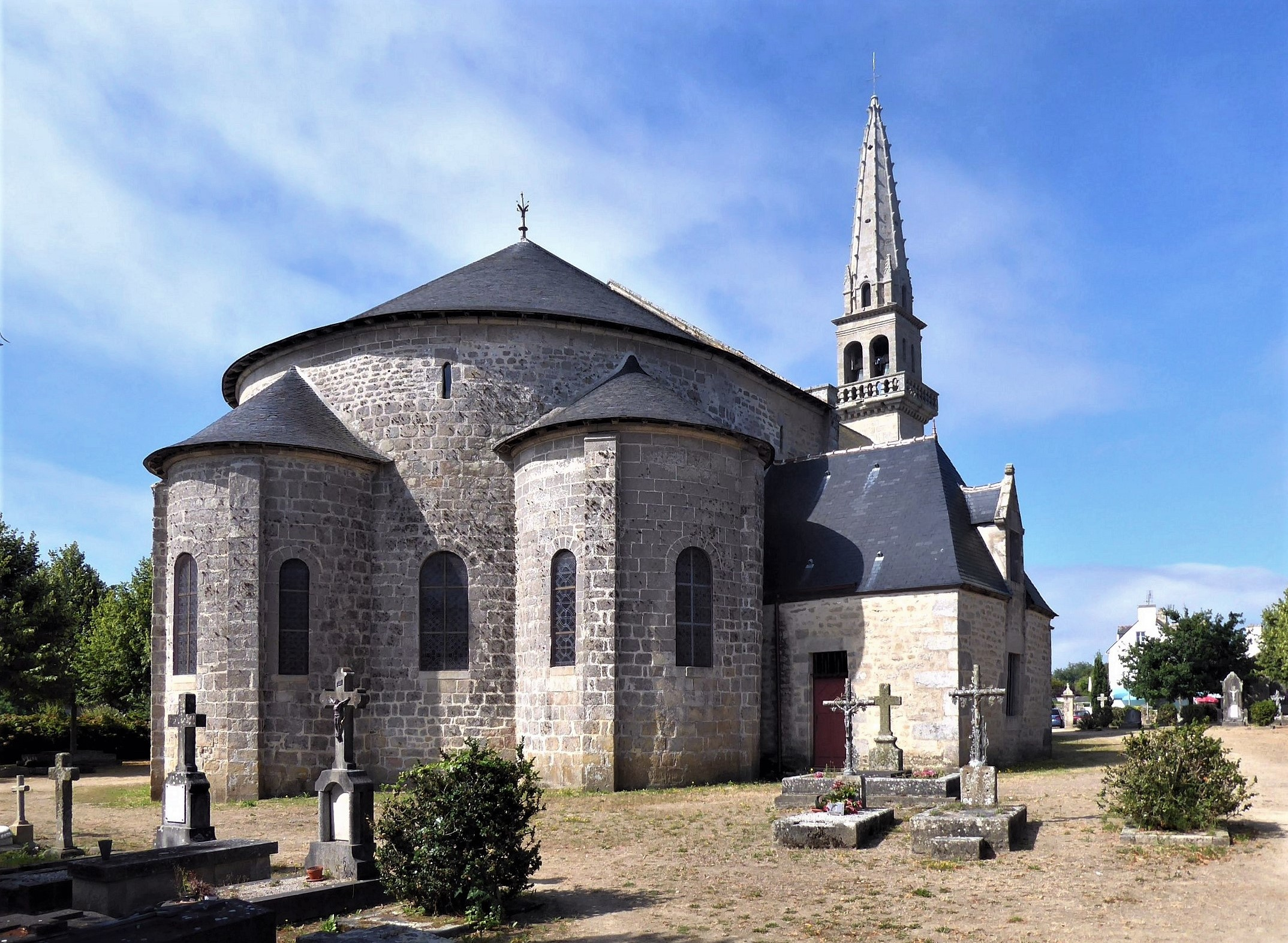 Exterior of Église Saint-Tudy de Loctudy